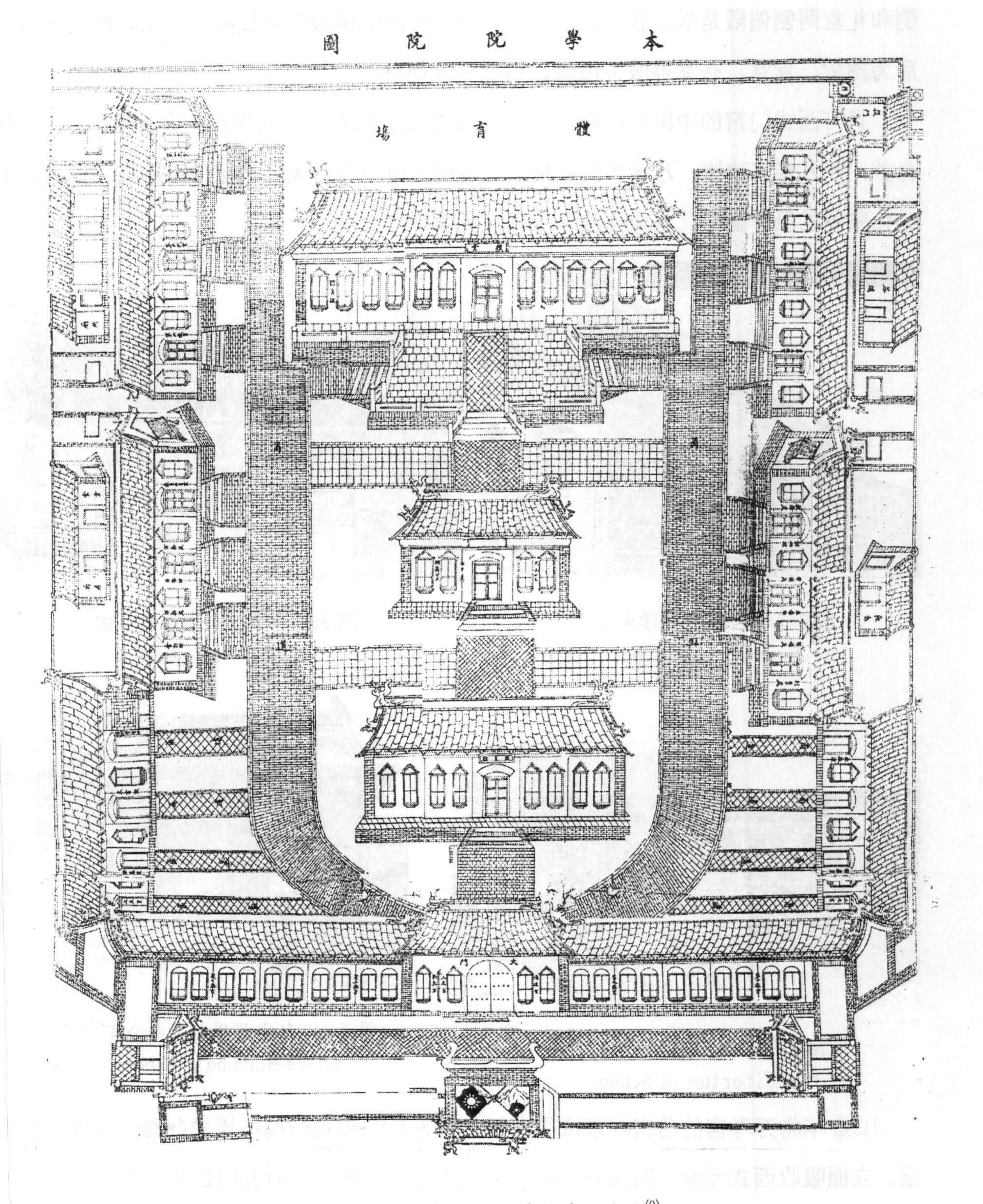 Bingzhou College, Plan